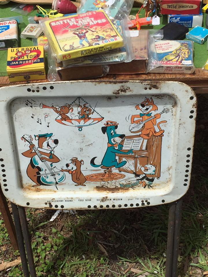 Vintage Hannah Barberra TV tray. May 2017 Cameron Antiques Street Fair, Cameron, NC.